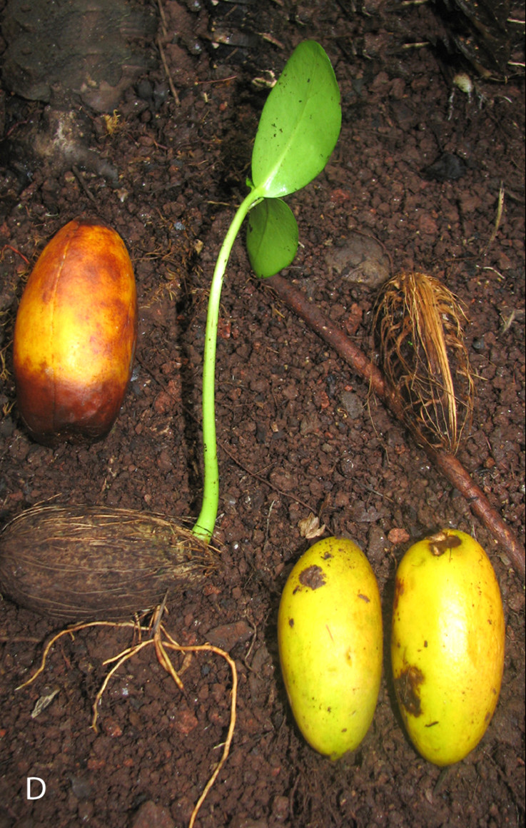 Ripe mericarps, seed showing fibers and germinating seed (Hanativa, Fatu Hiva, Nov. 2009, Butaud 2458).